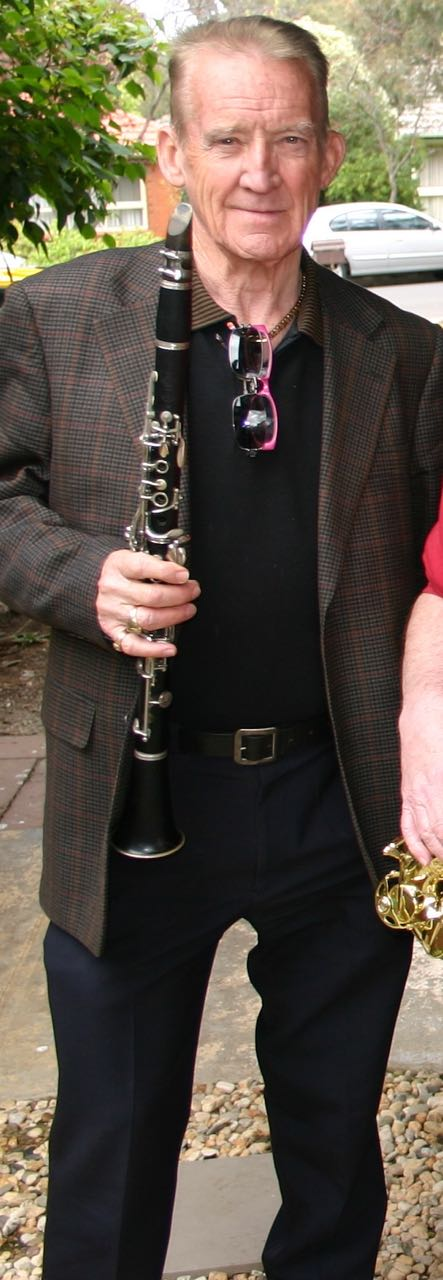 Renowned and popular jazz clarinet player of Melbourne, Victoria